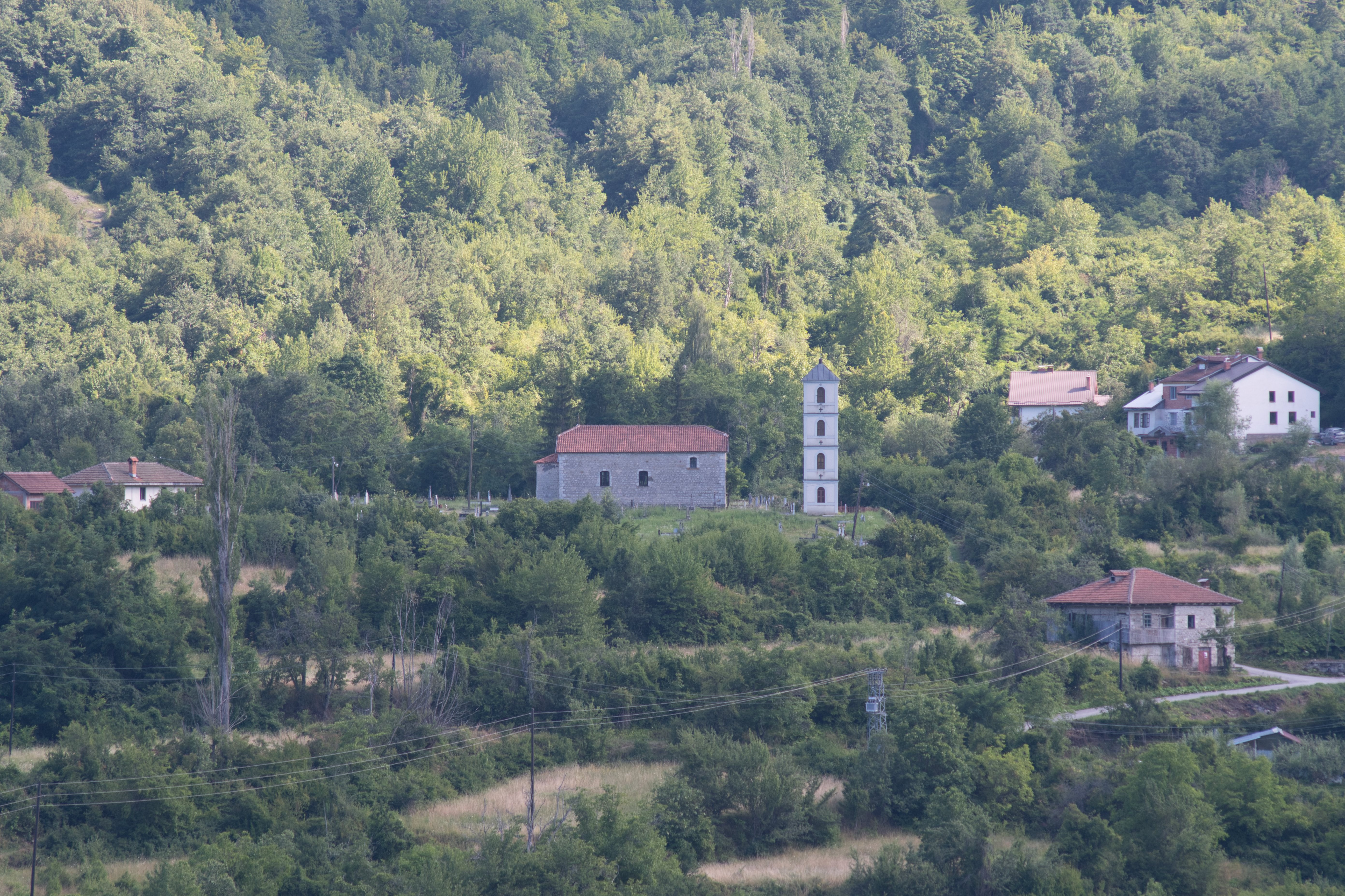 View of the village of Modrič with the Dormition of the Theotokos Church